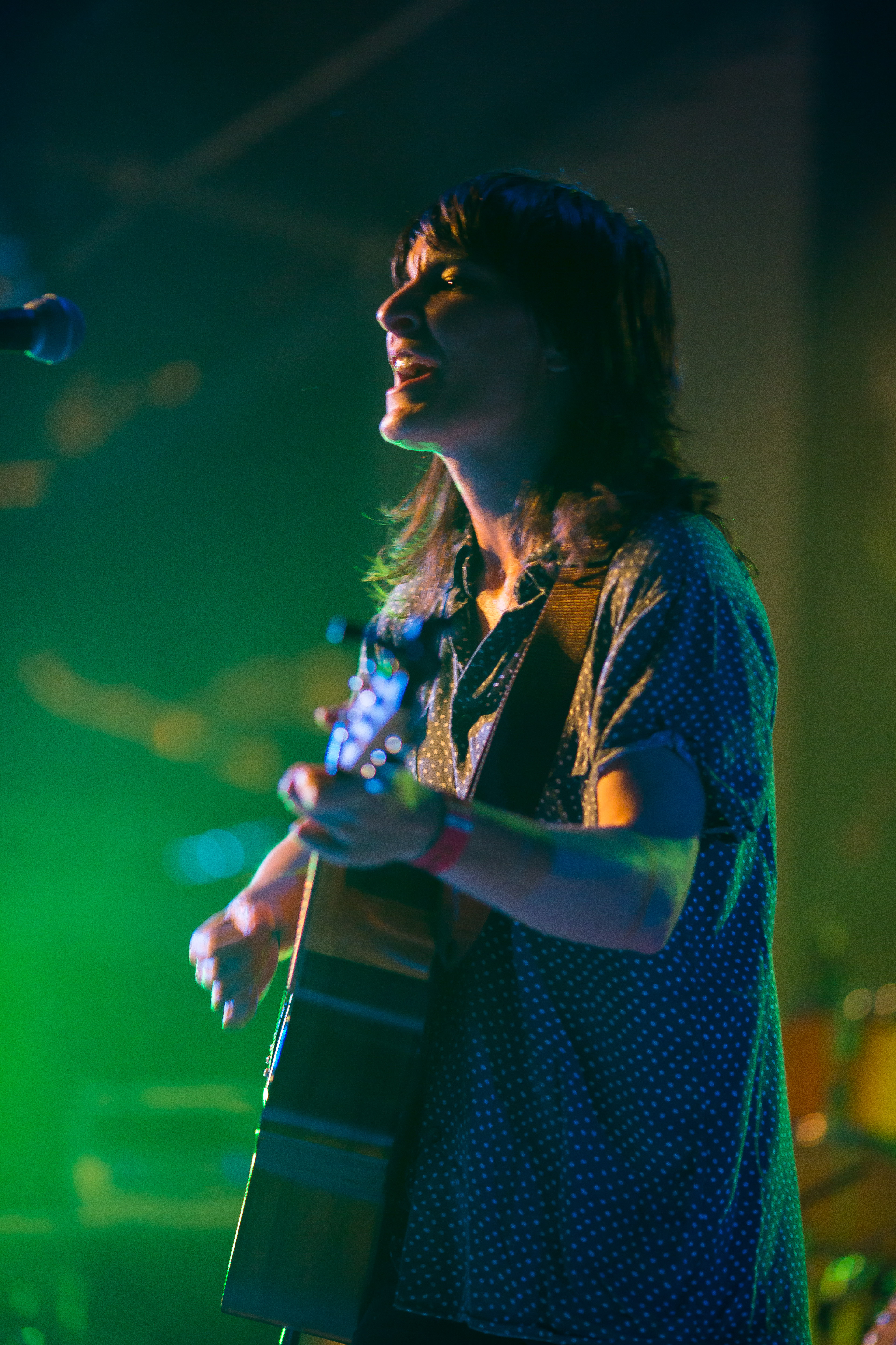 Jen Cloher